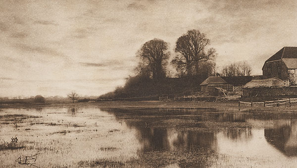 "Eventide"